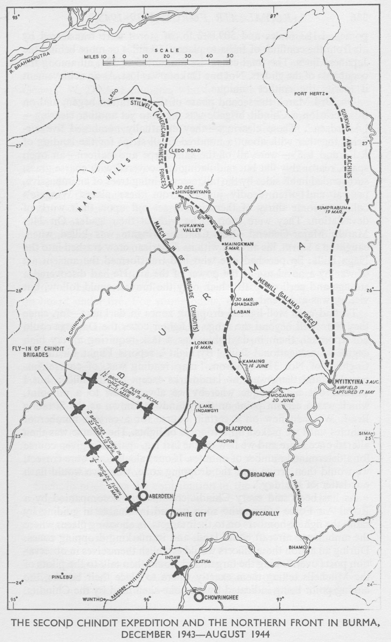 THE SECOND CHINDIT EXPEDITION AND THE NORTHERN FRONT IN BURMA, DECEMBER 1943-AUGUST 1944